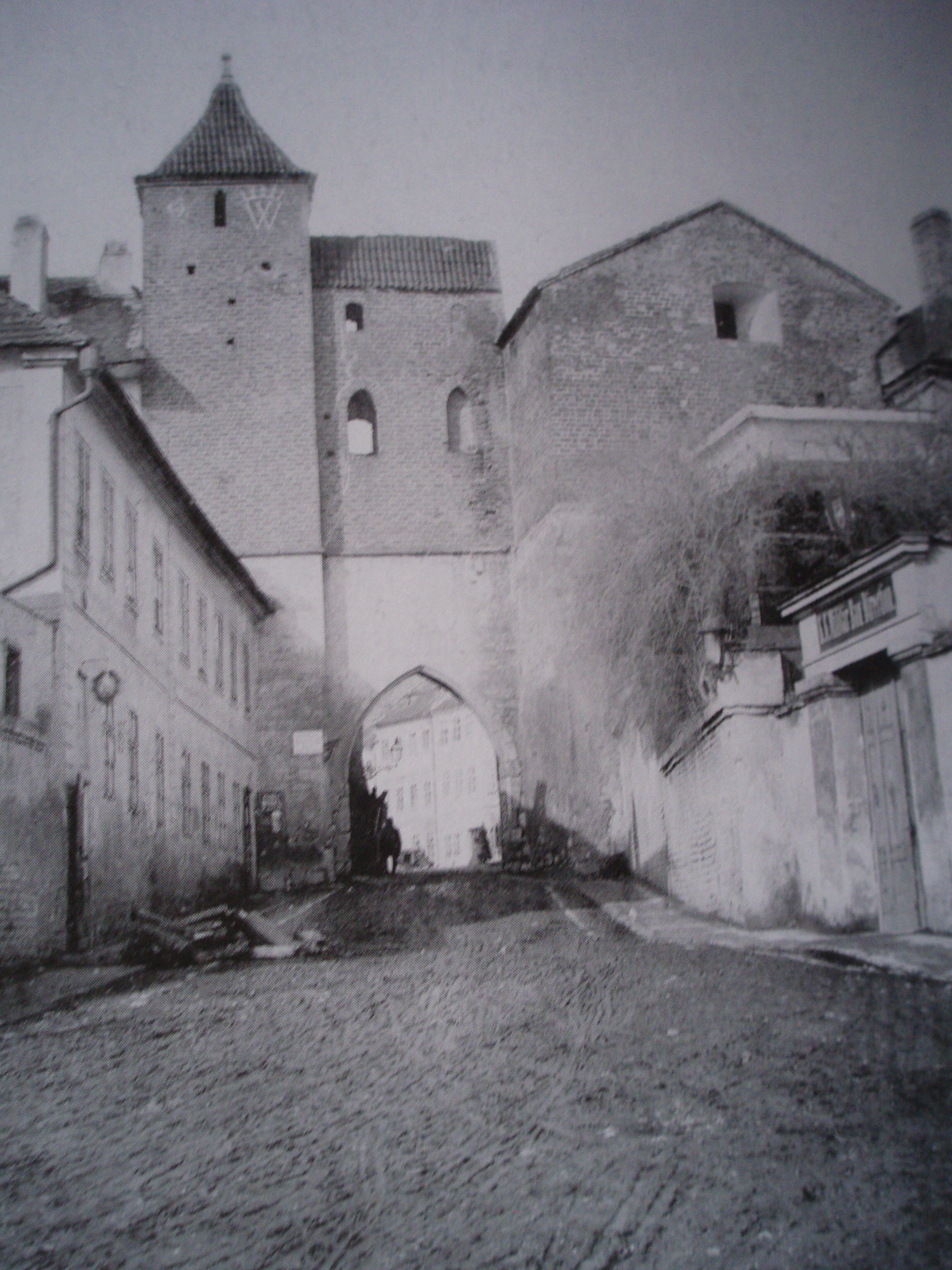 Vysoké Mýto Gate (Mýtská brána) in Hradec Králové prior to 1873